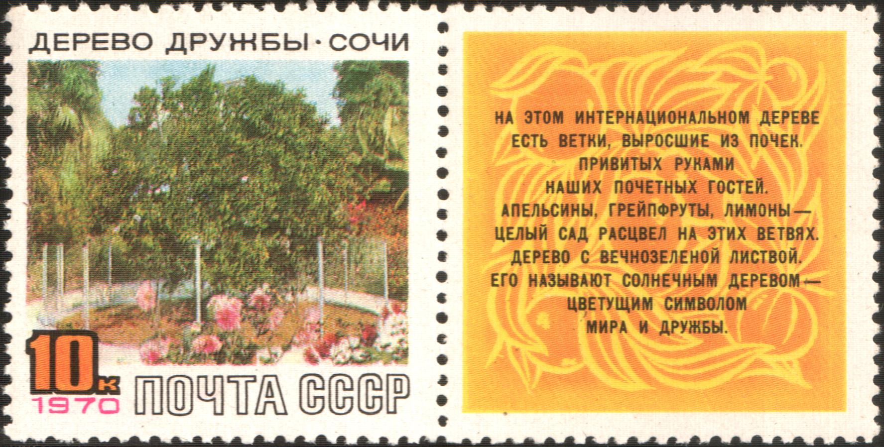 USSR stamp: Friendship Tree, Sochi with label. Series: Friendship Tree, Sochi